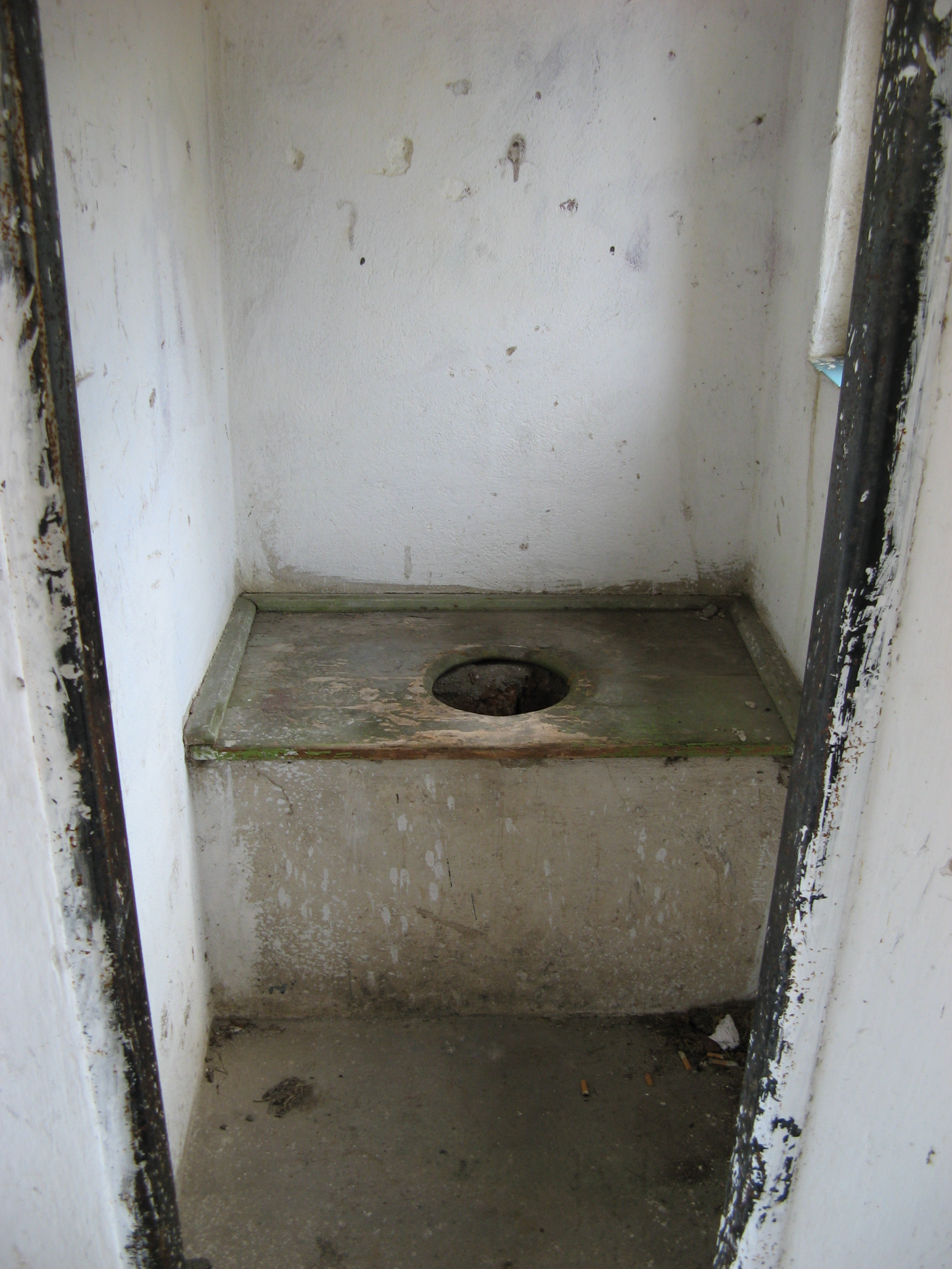 Dry toilet in railway station Vrbčany in the Czech Republic